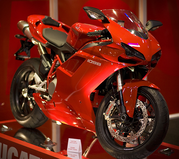 Bryce Mohan